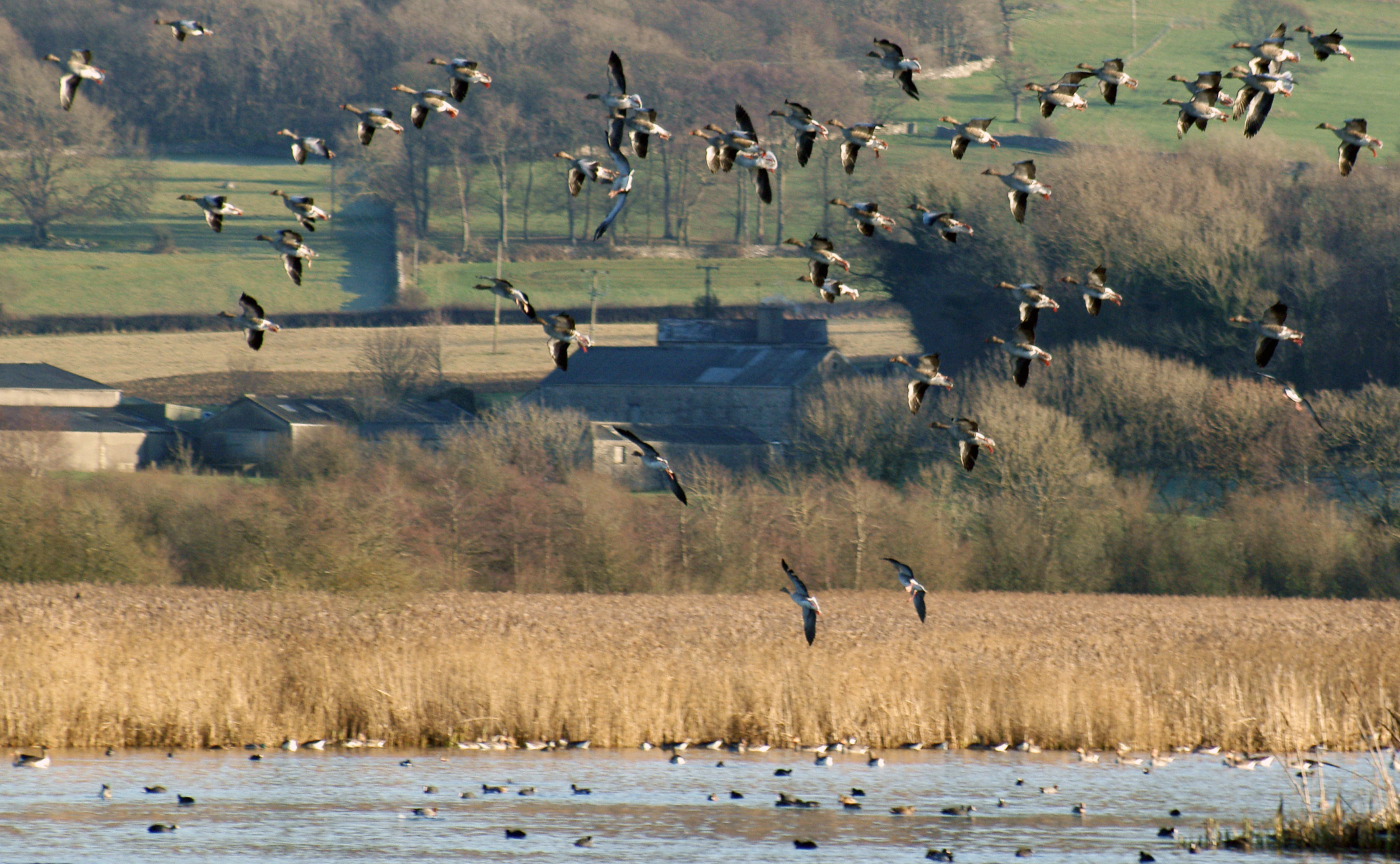 Greylag geese at Leighton Moss, Lancashire, England.